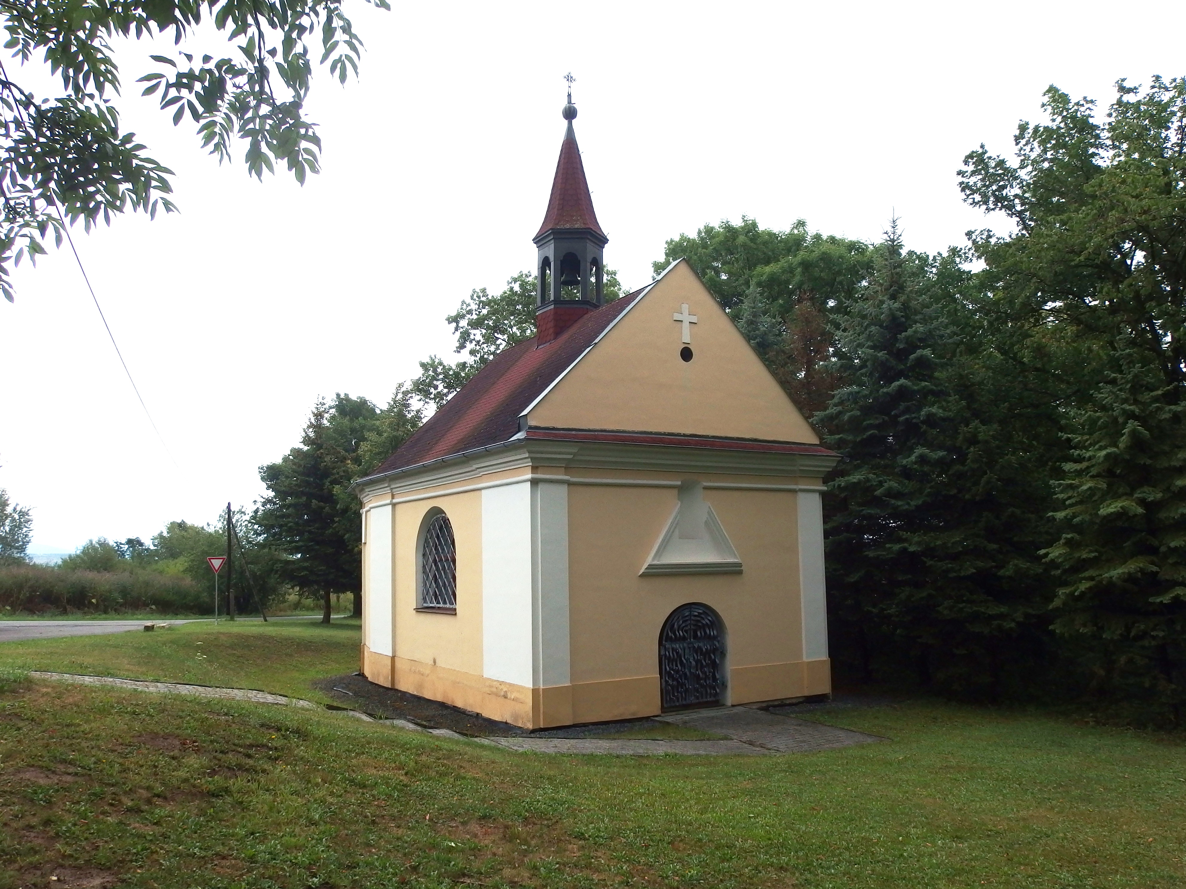 Sobíšky, Přerov District, Czech Republic.